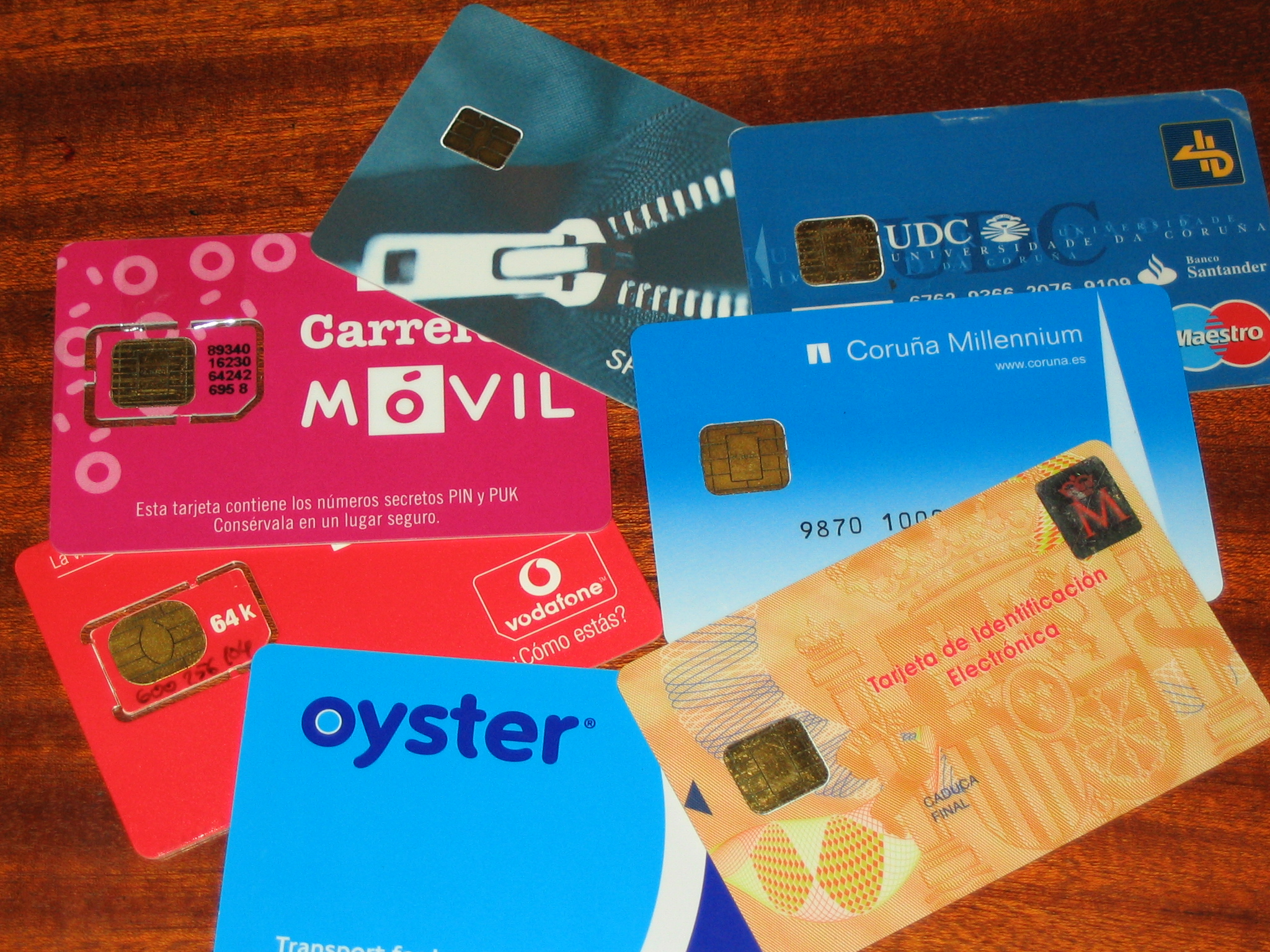 Several SmartCards